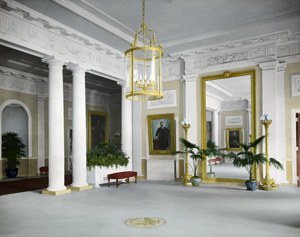 White House Entrance, 1904, as designed by Charles, Follen, and McKim.